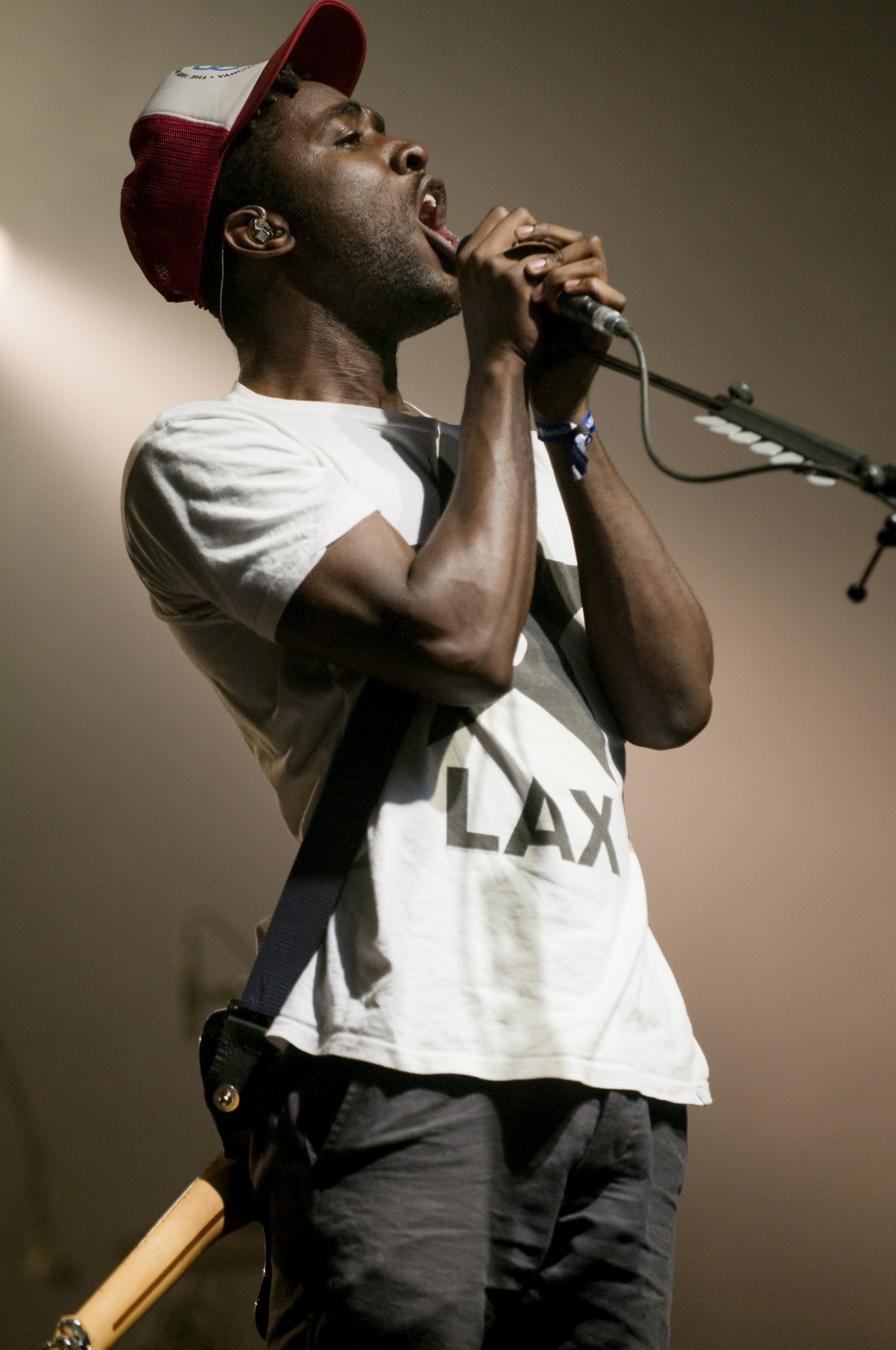 Bloc Party